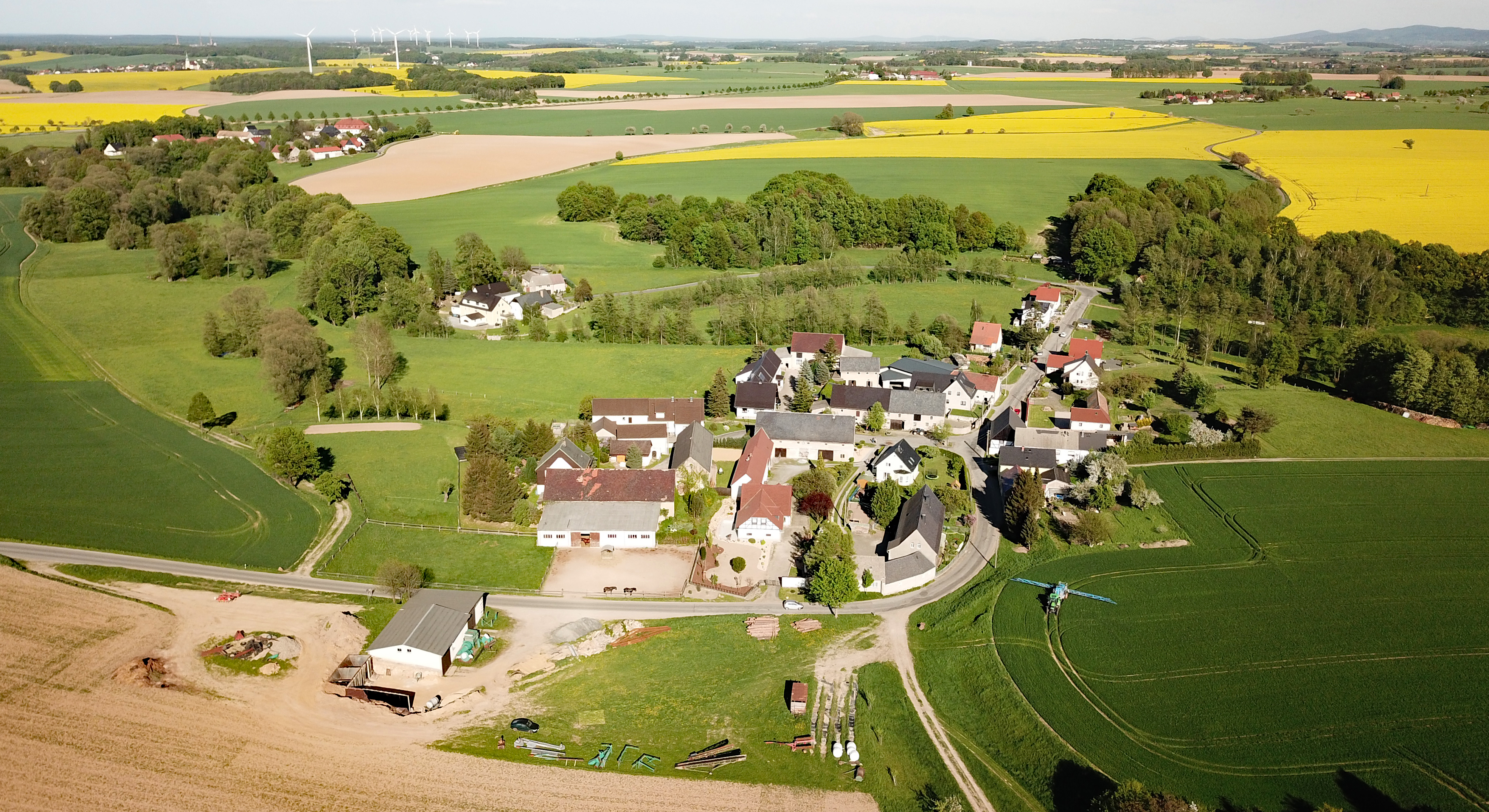 Cannewitz (Panschwitz-Kuckau, Saxony, Germany) Hornjoserbsce: Powětrowy wobraz Kanec